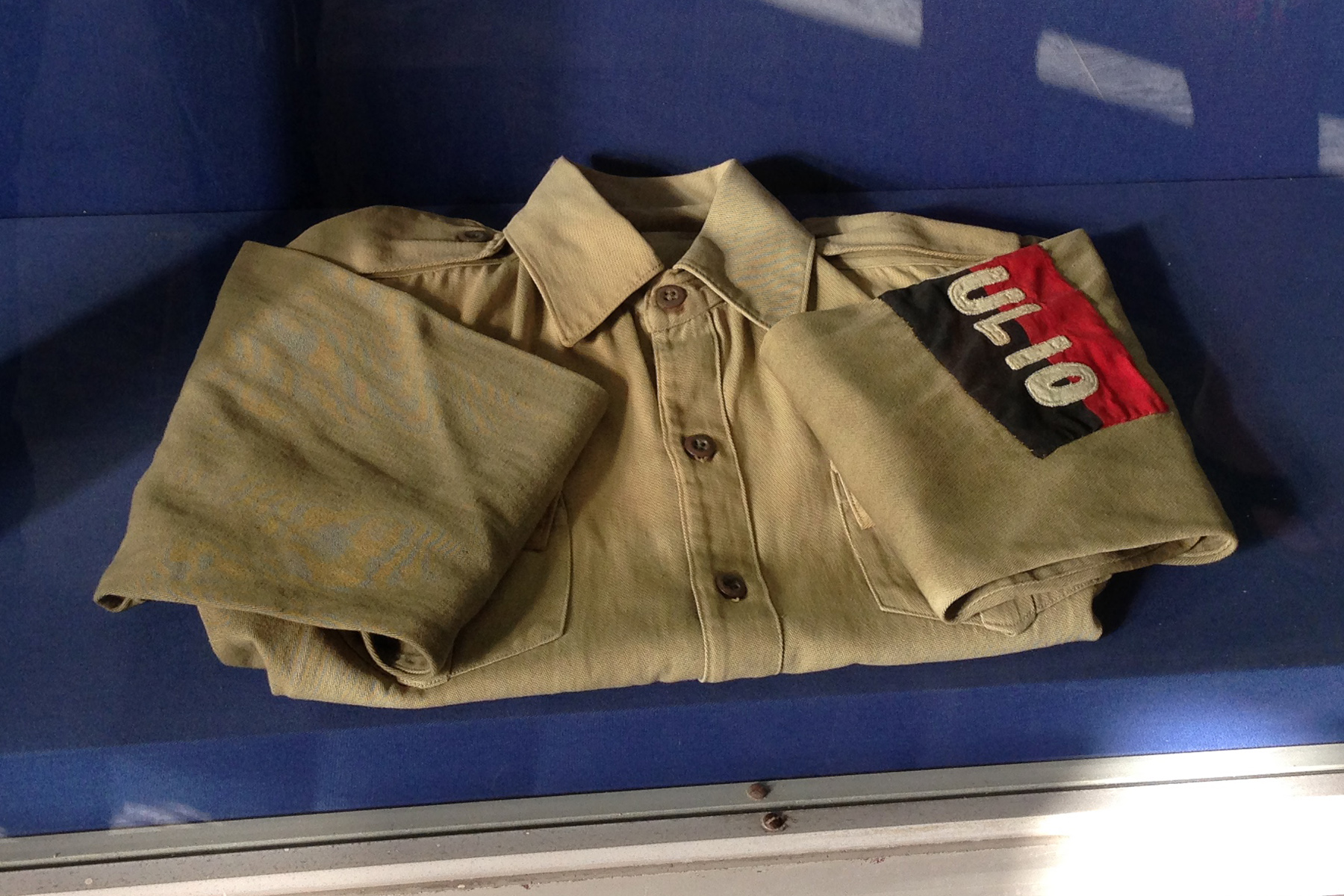 Uniform used by Vilma Espín Guillois during the Cuban Revolution, housed in the Museum of the Revolution in Cuba